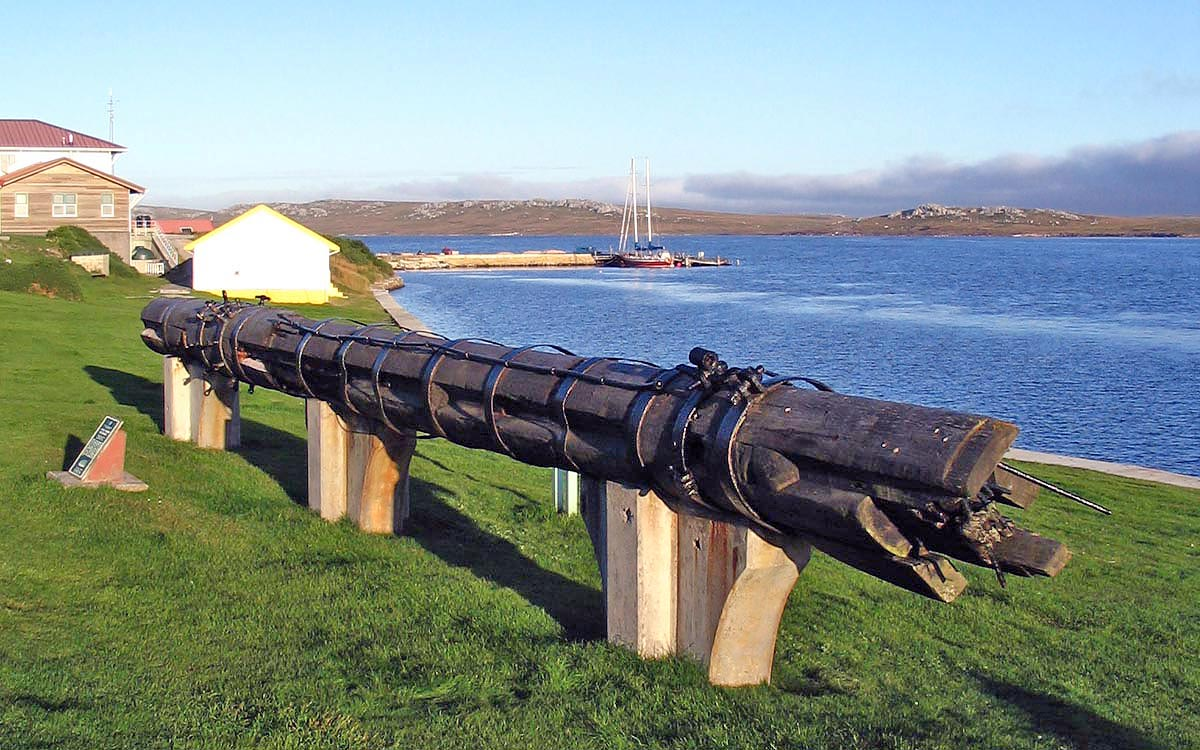 Mizzen mast of the SS Great Britain at Stanley.